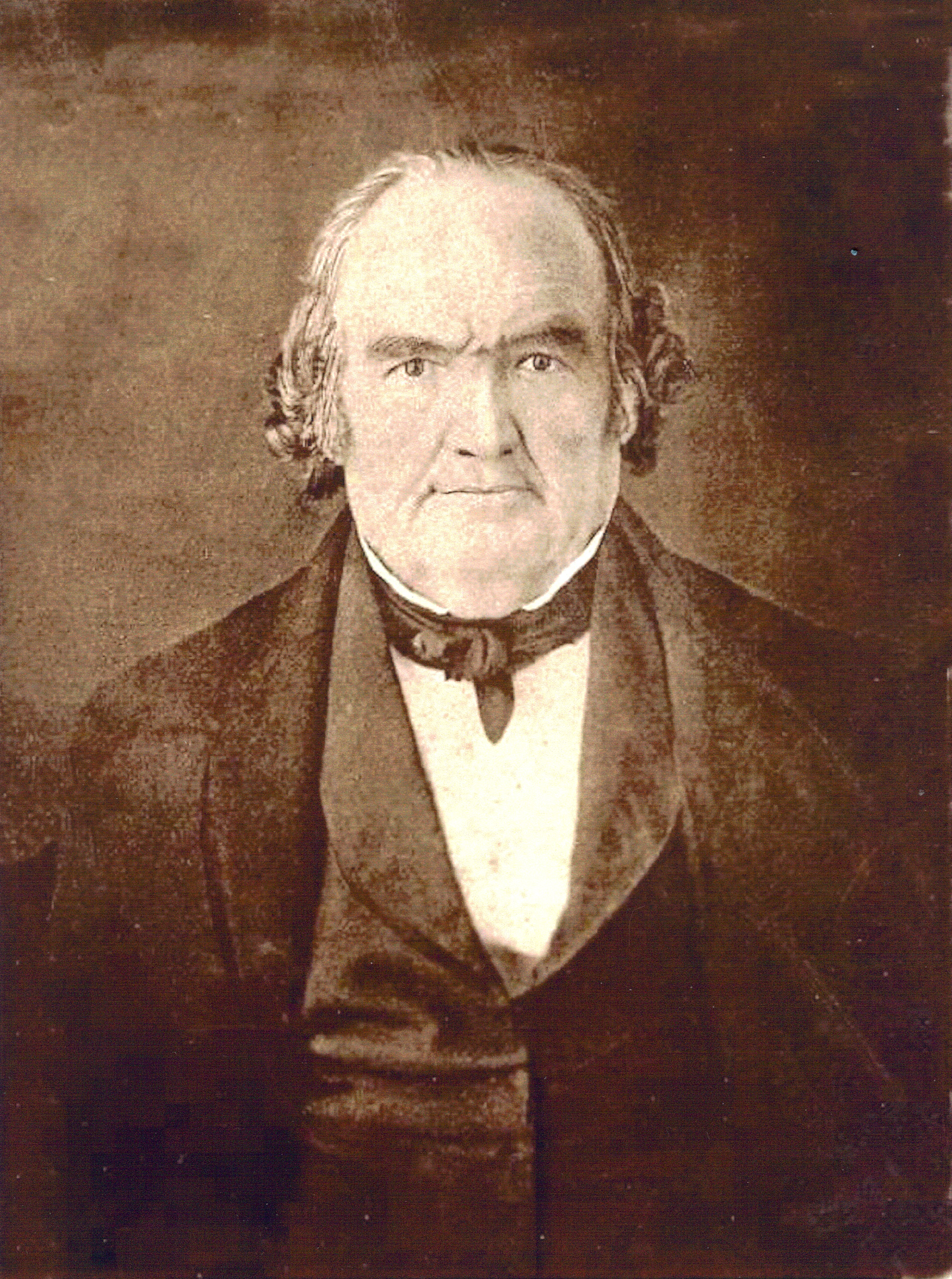 Jesse Merwin (1785 – 1865), called the 'pattern' or 'original' of Ichabod Crane was a rural Schoolmaster in Upstate New York, and a friend of Martin Van Buren and Washington Irving. He taught school at a single-room schoolhouse in Columbia County, New York, and carried on a correspondence with Washington Irving for several decades.